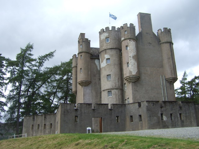 Braemar Castle from the east With its star-shaped curtain wall.